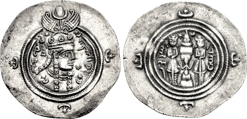 Coin of Boran, a Sasanian queen.